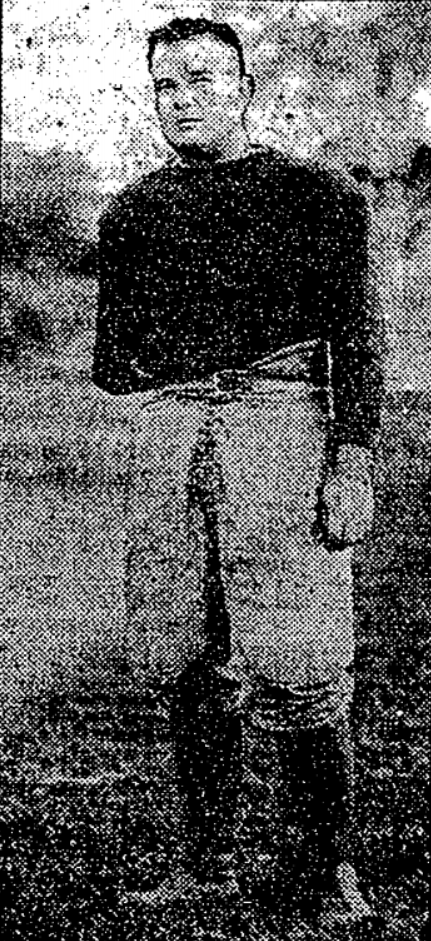 Photograph of Eugene Neeley